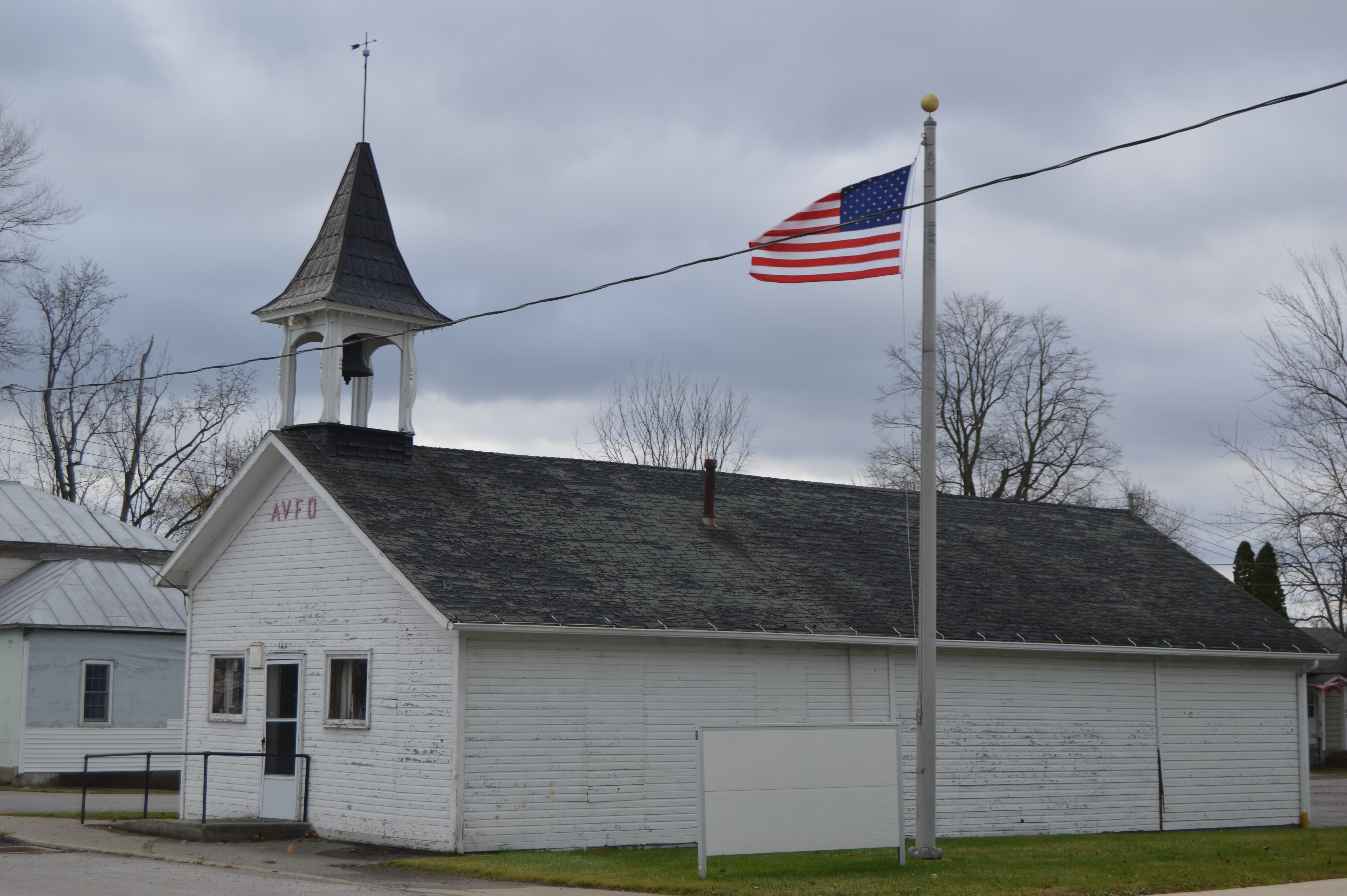 Front and western side of the Mill Creek Township hall, located at 122 E. Main Street (U.S. Route 20) in Alvordton, Ohio, United States. Before Alvordton disincorporated in 2007, this was also the village's municipal building.